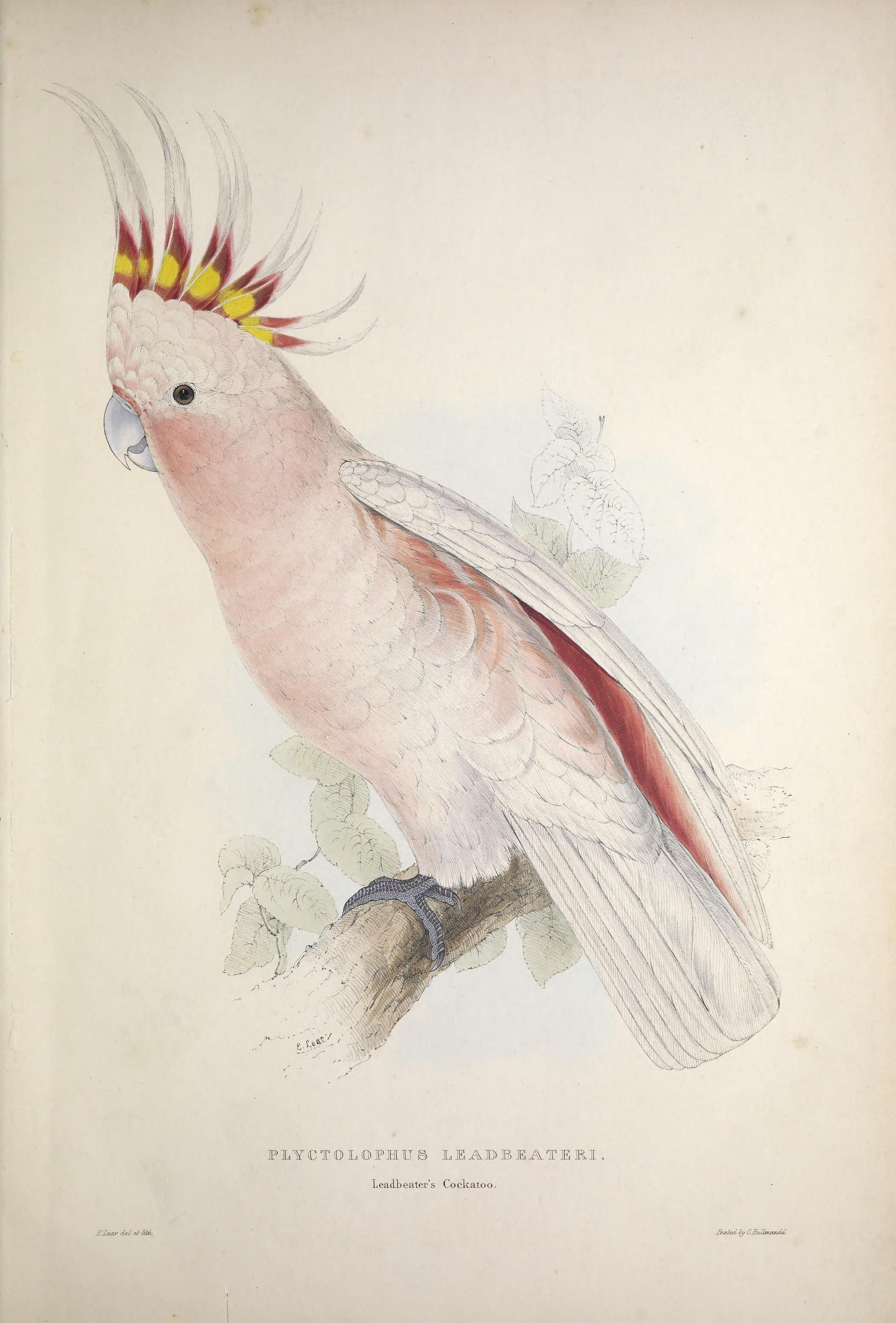 .\ .e --.^ sK ■s . V ■ - .*** FLYCTOLOPHUS LEAD1EATEEI L eadb e ater' s Co cleat o o . U.Zmw .Ze& ei IM--.